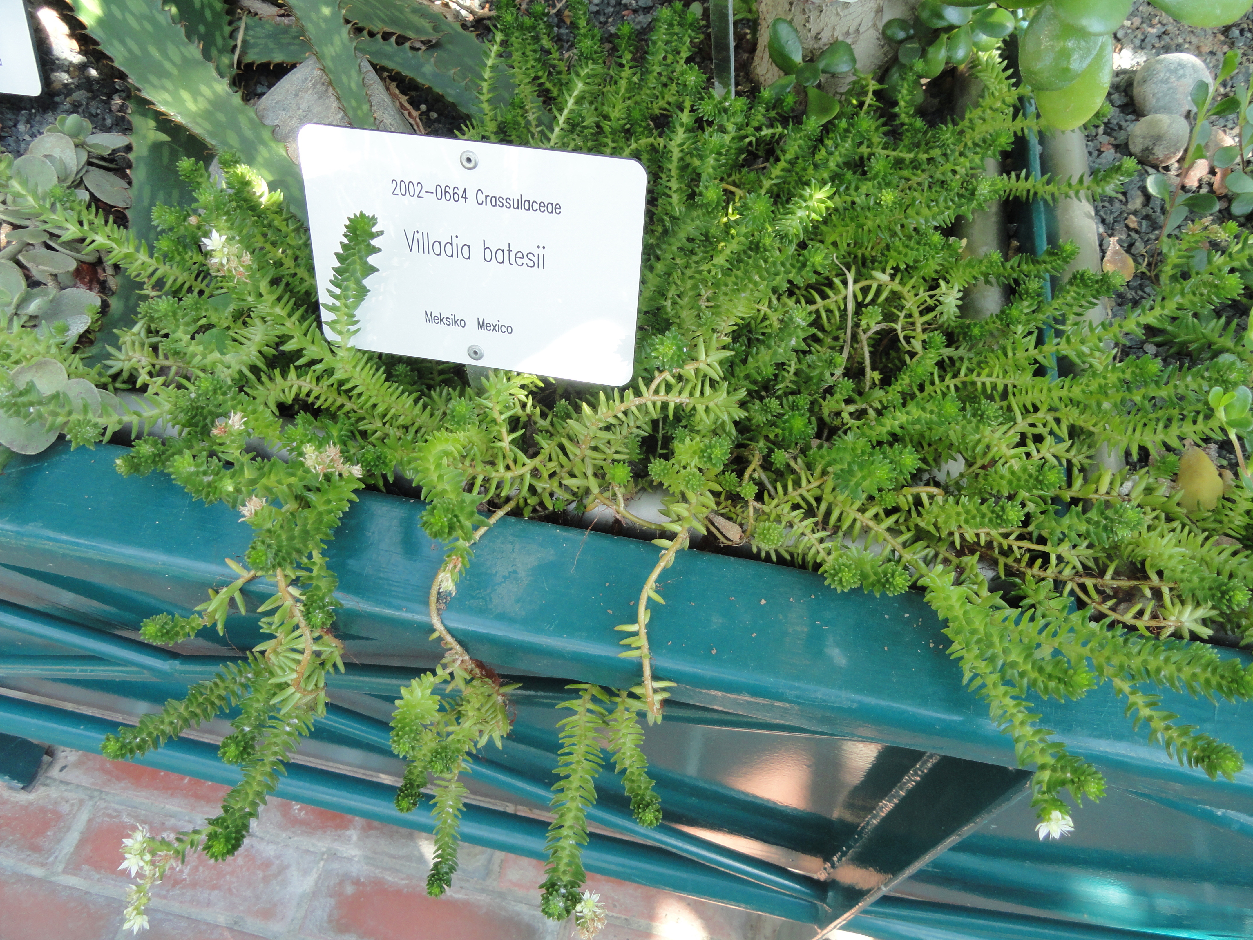 Botanical specimen. The University of Helsinki Botanical Garden at Kaisaniemi